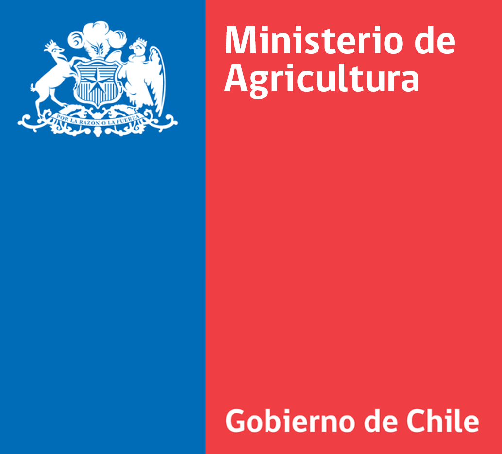 Department of agriculture